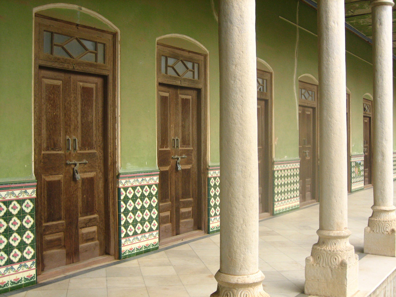 Tiled hallway veranda of Piramal Haveli, at Bagar, Rajasthan (India). Now a heritage hotel run by Neemrana Hotels.